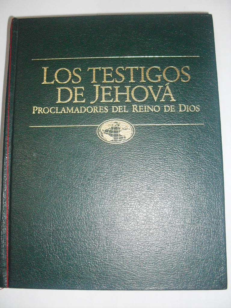 Los testigos de Jehová, proclamadores del Reino de Dios